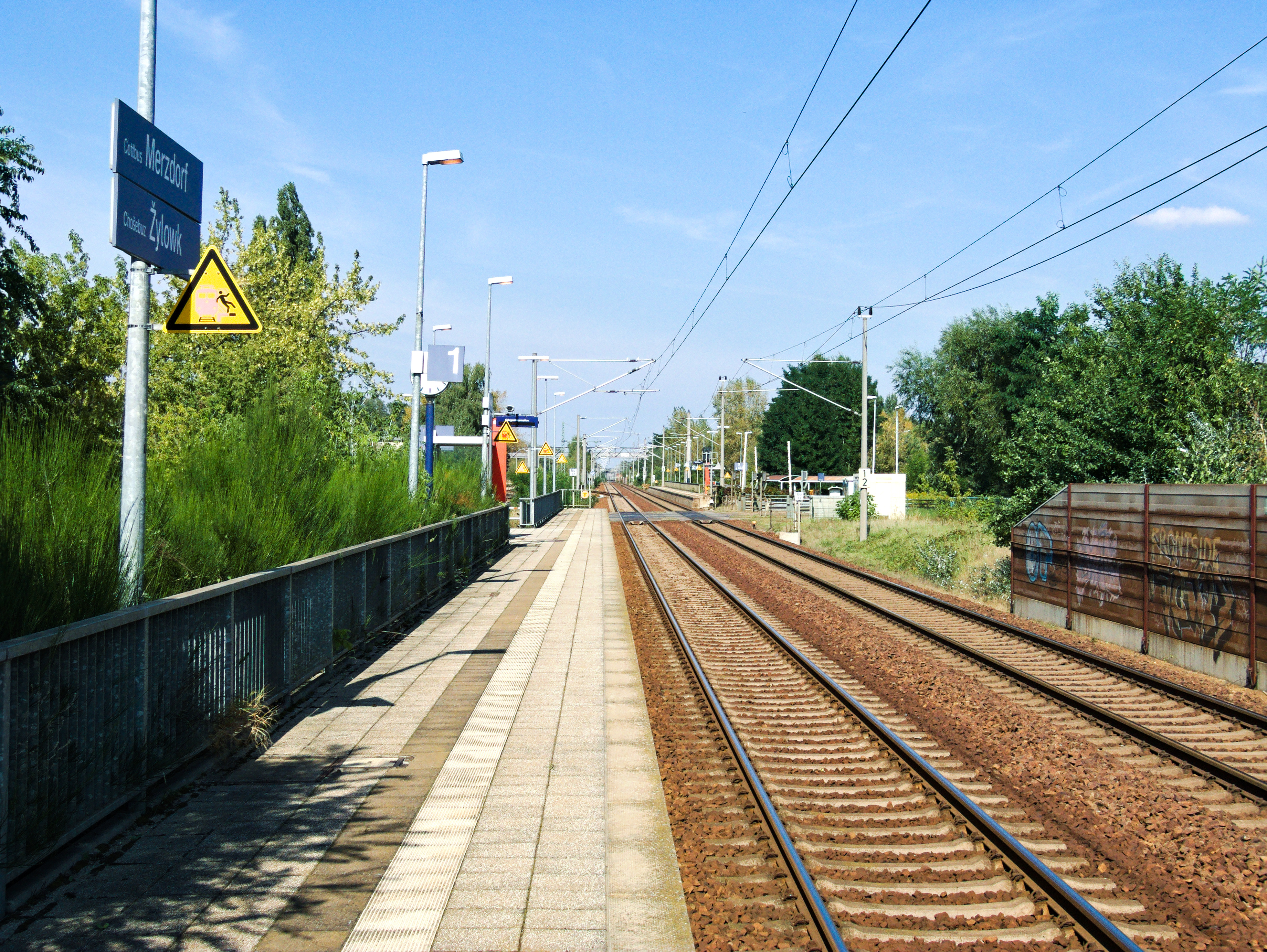 Train station "Cottbus-Merzdorf". Platform 1 is served by stopping trains headed for Cottbus.